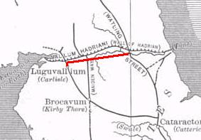 From Image:Romanbritain.jpg